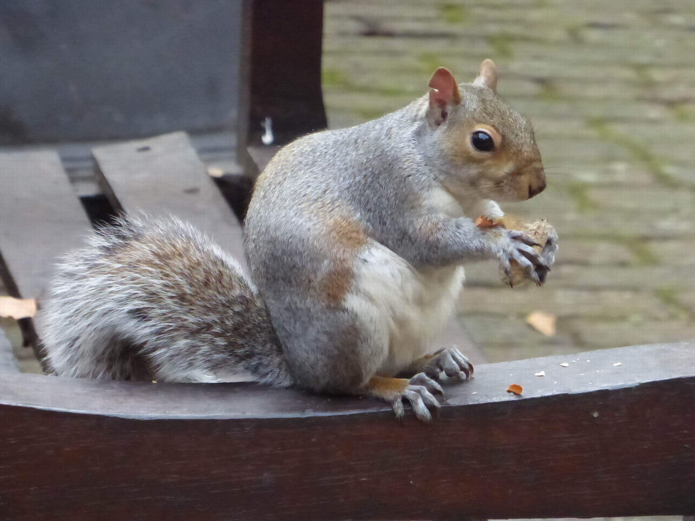 Eating Eastern Grey Squirrel in Bunhill Fields